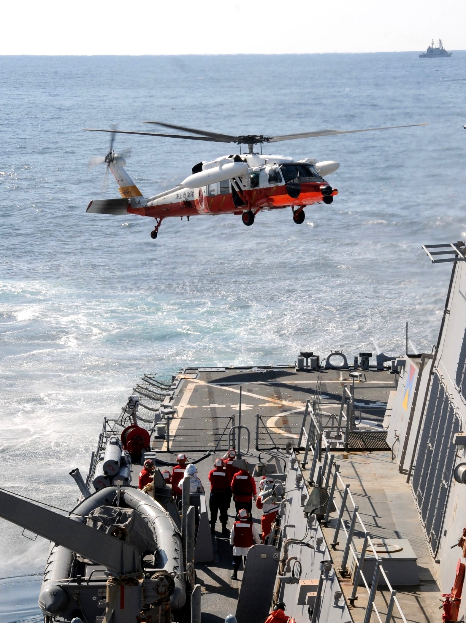 PACIFIC OCEAN (March 18, 2011) A Japan Maritime Self-Defense helicopter lands aboard the Arleigh Burke-class guided-missile destroyer USS Fitzgerald (DDG 62). Fitzgerald is east of Miyagi Prefecture, Japan conducting humanitarian assistance efforts as directed in support of Operation Tomodachi. (U.S. Navy photo by Mass Communication Specialist 2nd Class William Pittman/Released)